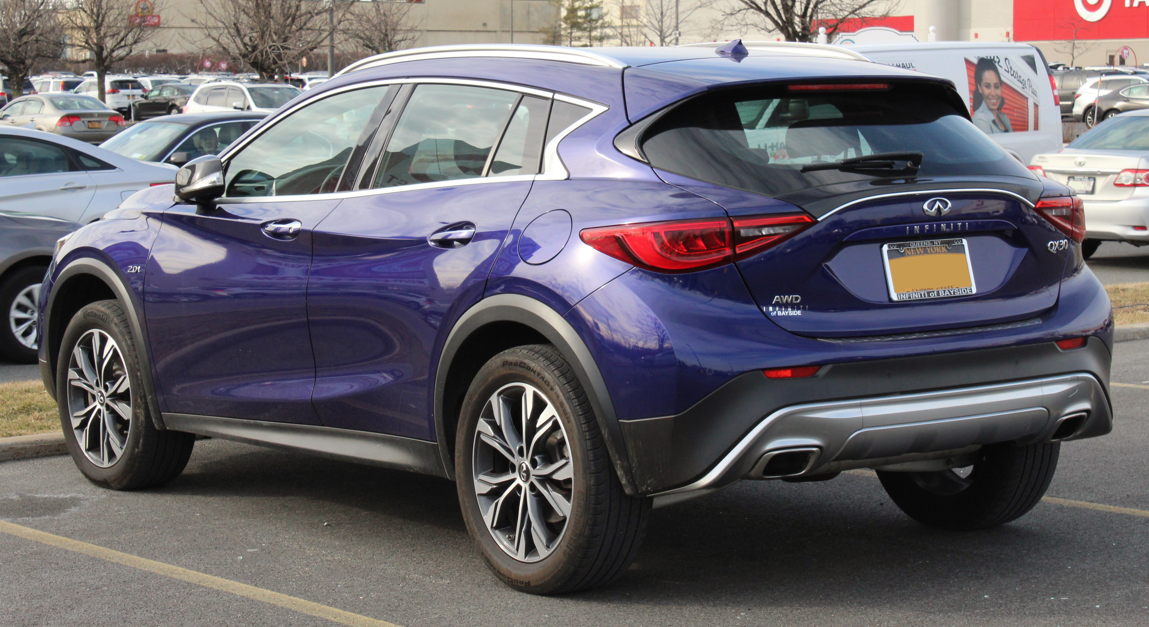 A 2017 Infiniti QX30 photographed in College Point, Queens, New York, USA